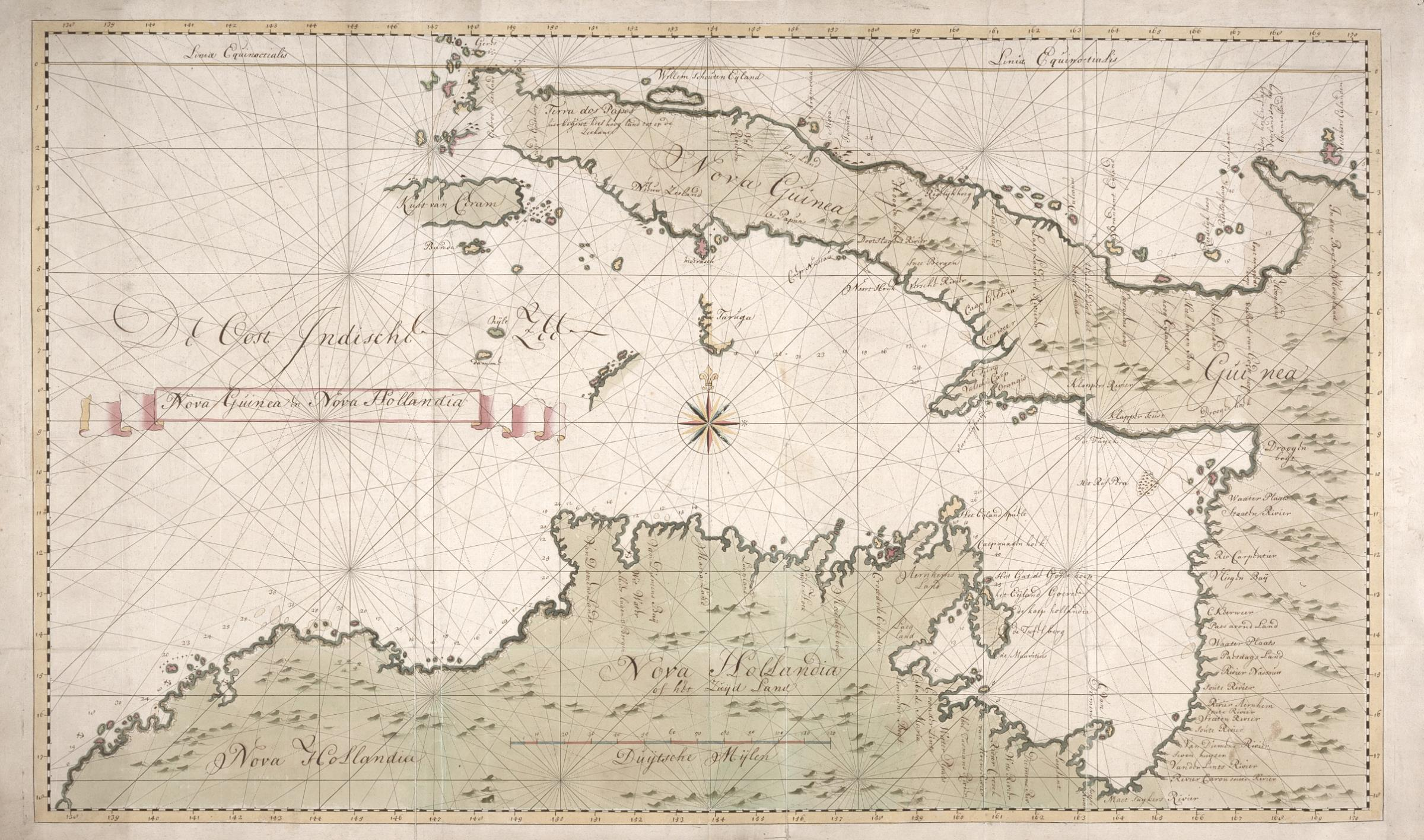 Title in the Leupe Catalogue (NA): Kaart van een gedeelte van de Moluksche zee, met de kusten van Nieuw-Guinea en Nieuw-Holland. Note in the Leupe Catalogue: Van voor 1770 aangezien de Torresstraat hierop nog niet is aangeduid en het bestaan dier straat omstreeks dien tijd algemeen bekend werd. Features printed compass lines. Numbered top right: 52.